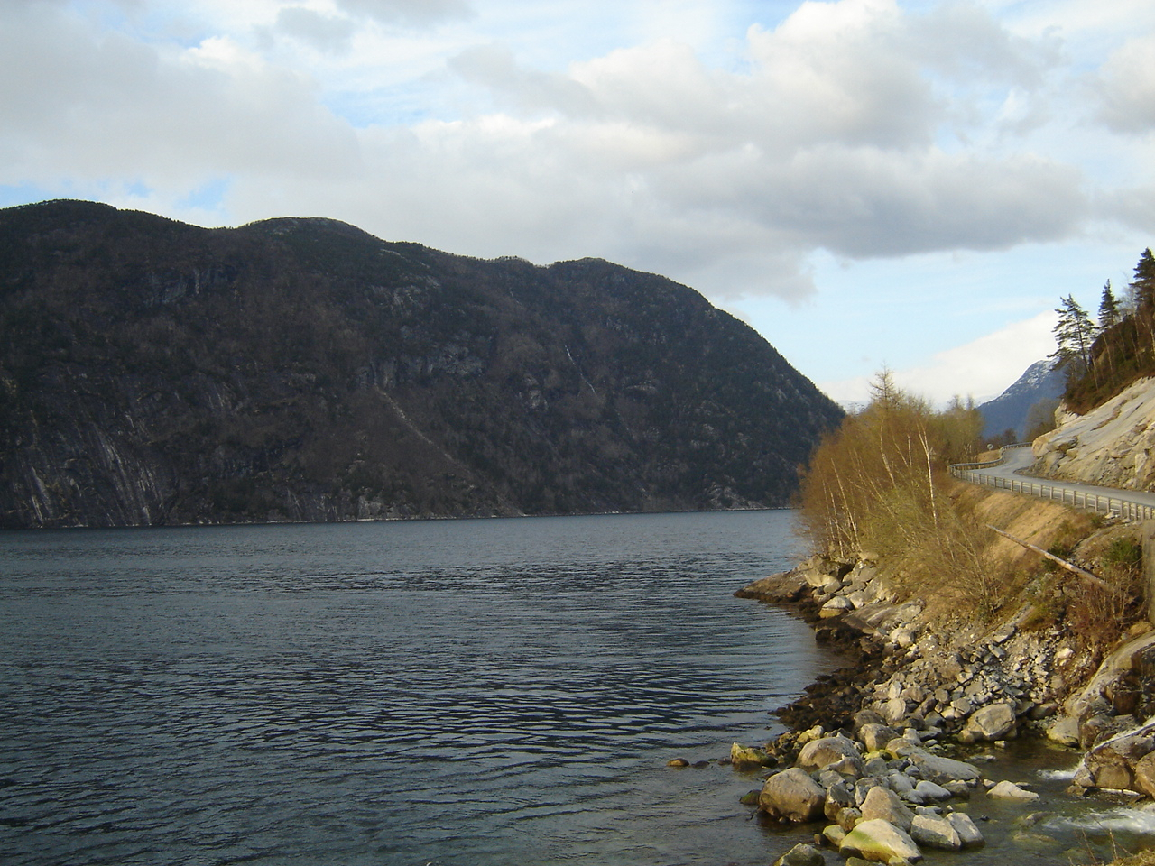 Fiord Maurang, Kvinnherad, Norwegia; Fjord Maurang, Kvinnherad, Norway